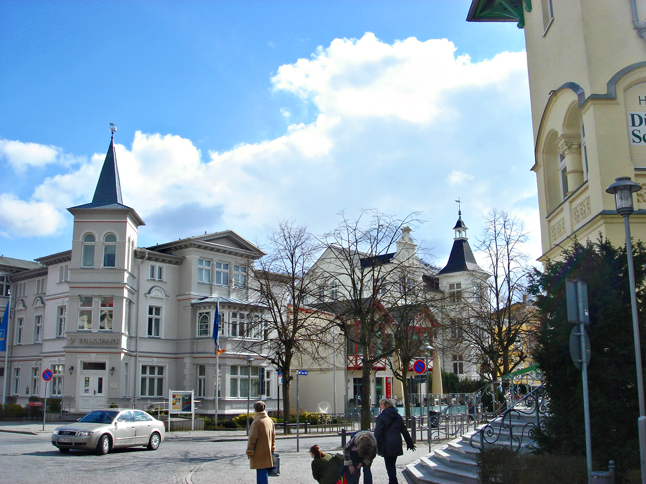 These buildings are situated at the crossroads of Dünenstraße/Neue Strandstraße. The building to the left is rent to the German Volksbank/Raiffaisenbank, aside of it (in the middle of the picture) there's the "Villa Salvete", to right the "Villa San Remo" - and to the far right the famous Hotel "Dünenschloss" (dune castle). All of these mansions were built at the turn of the 19th to the 20th century in splendid "Bäderarchitektur" (seaside resort architecture).